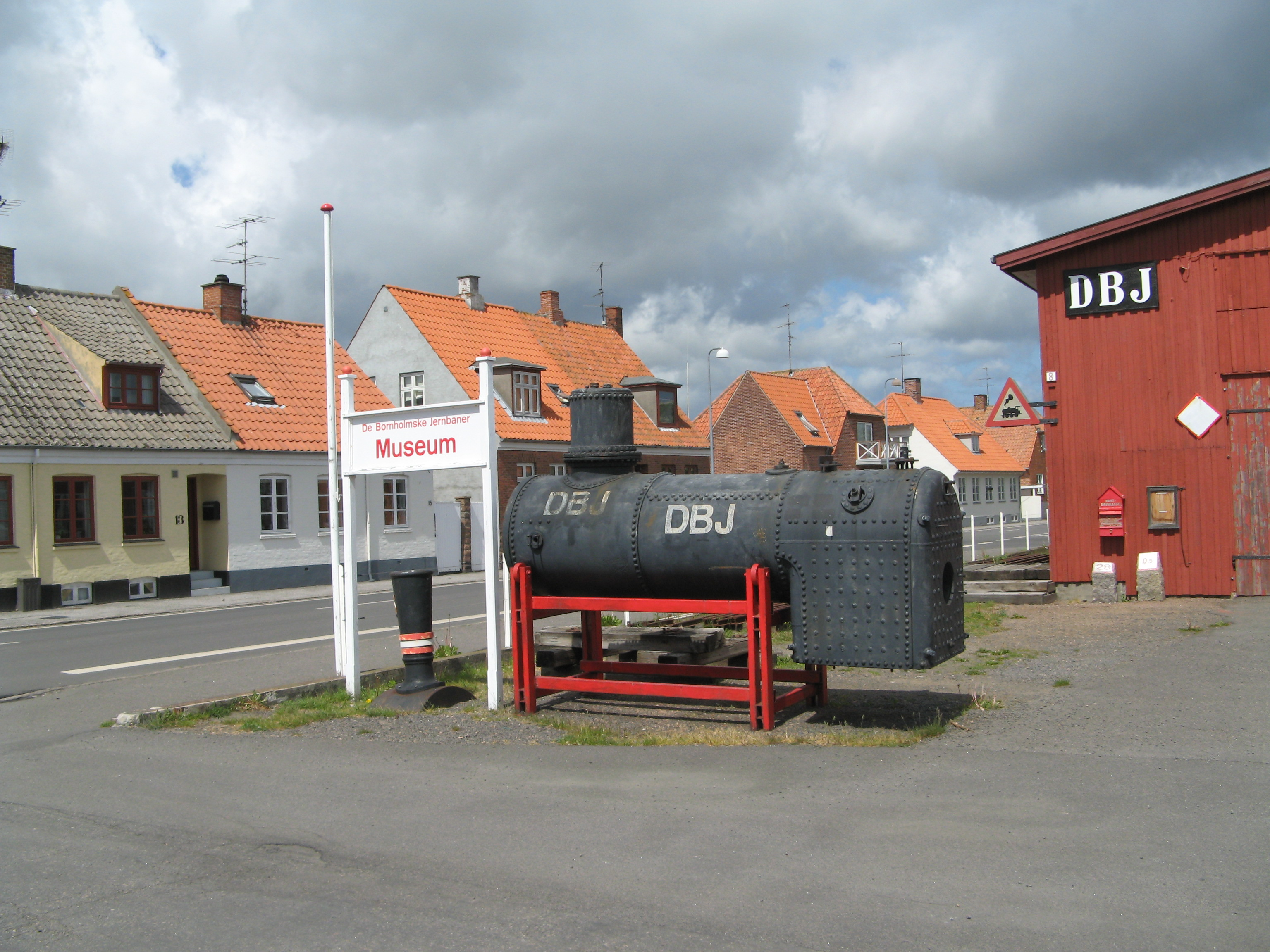 Nexø Railroad Museum